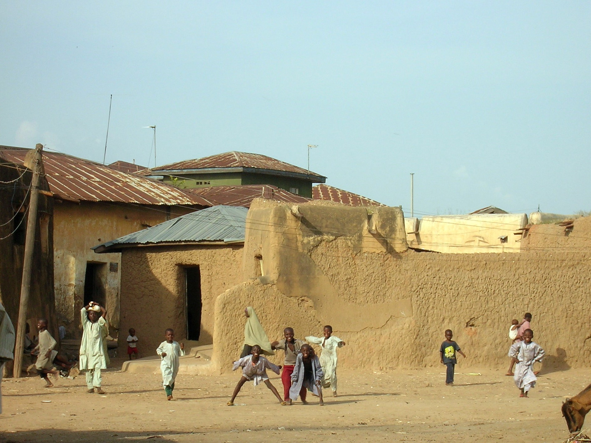 Kids playing in the streets of Zaria, Nigeria